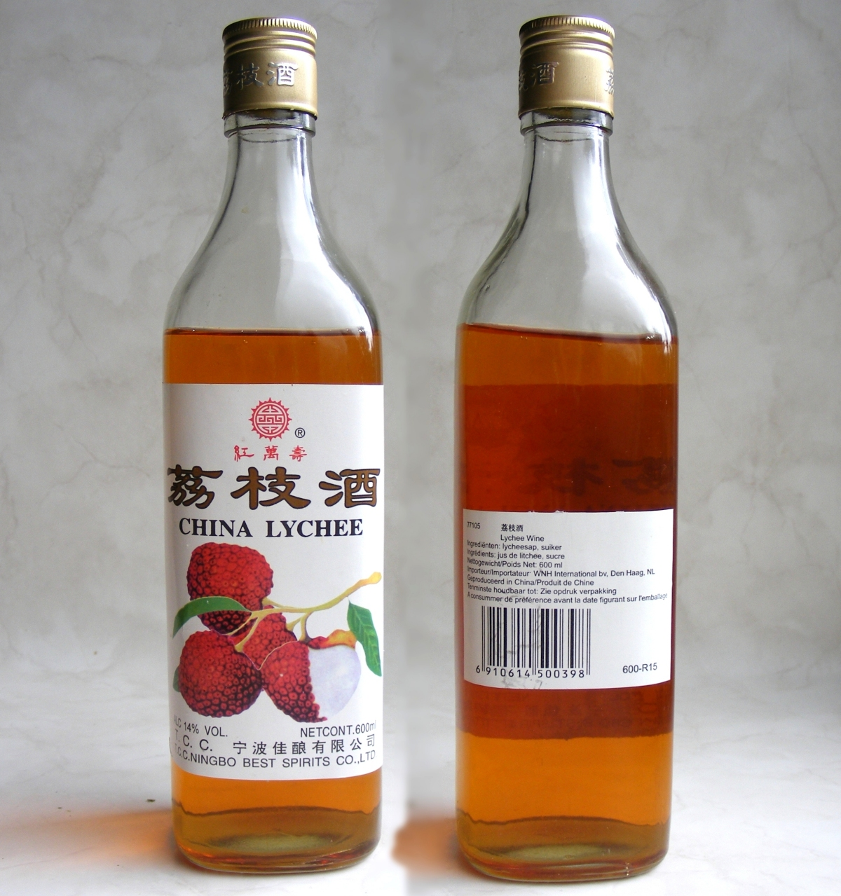 Sweet dessert wine from China made from lychee